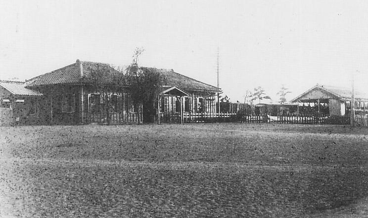 Hiratsuka Station in the Meiji era